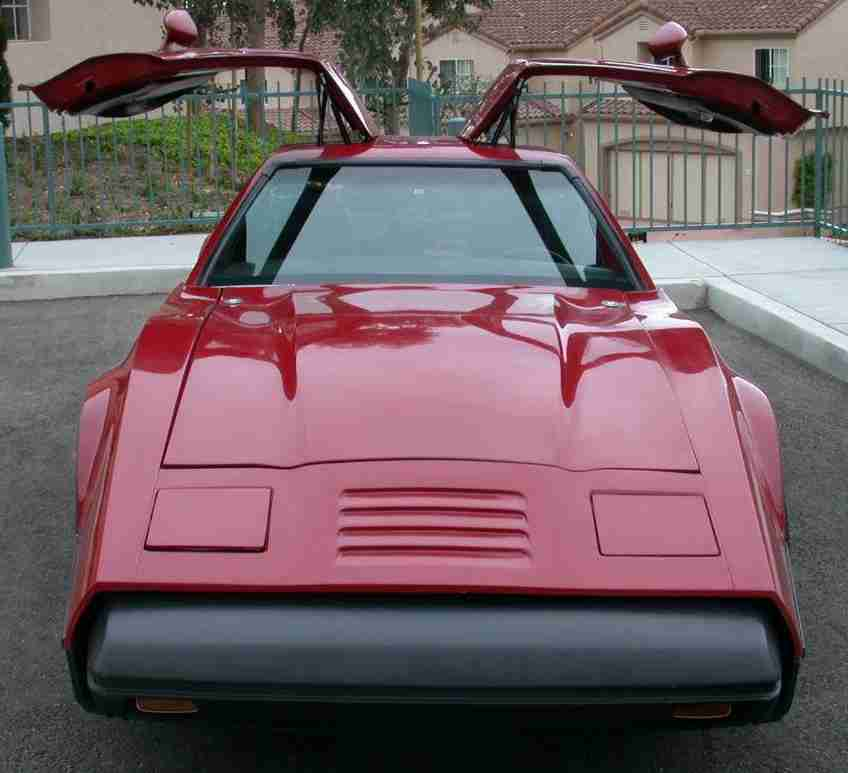 Bricklin SV-1 Car